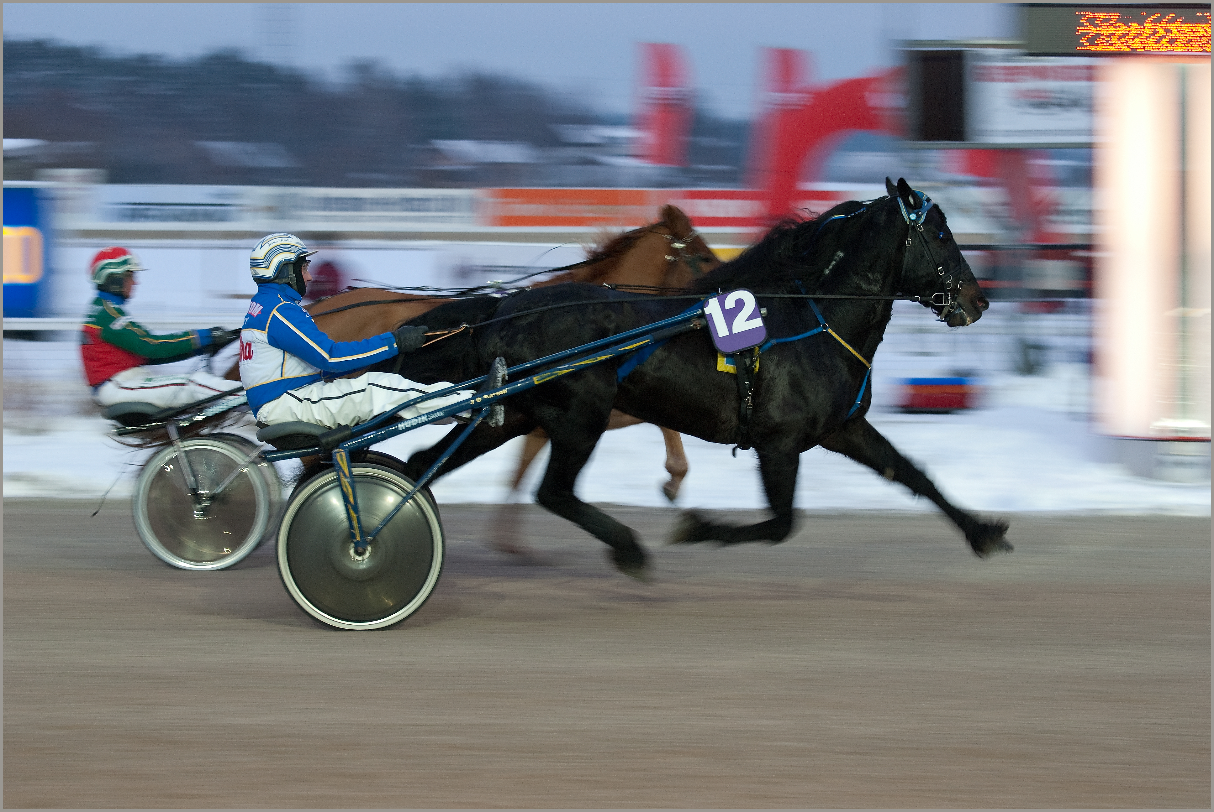 A very popular Champion. Breed:Kaldblodstraver